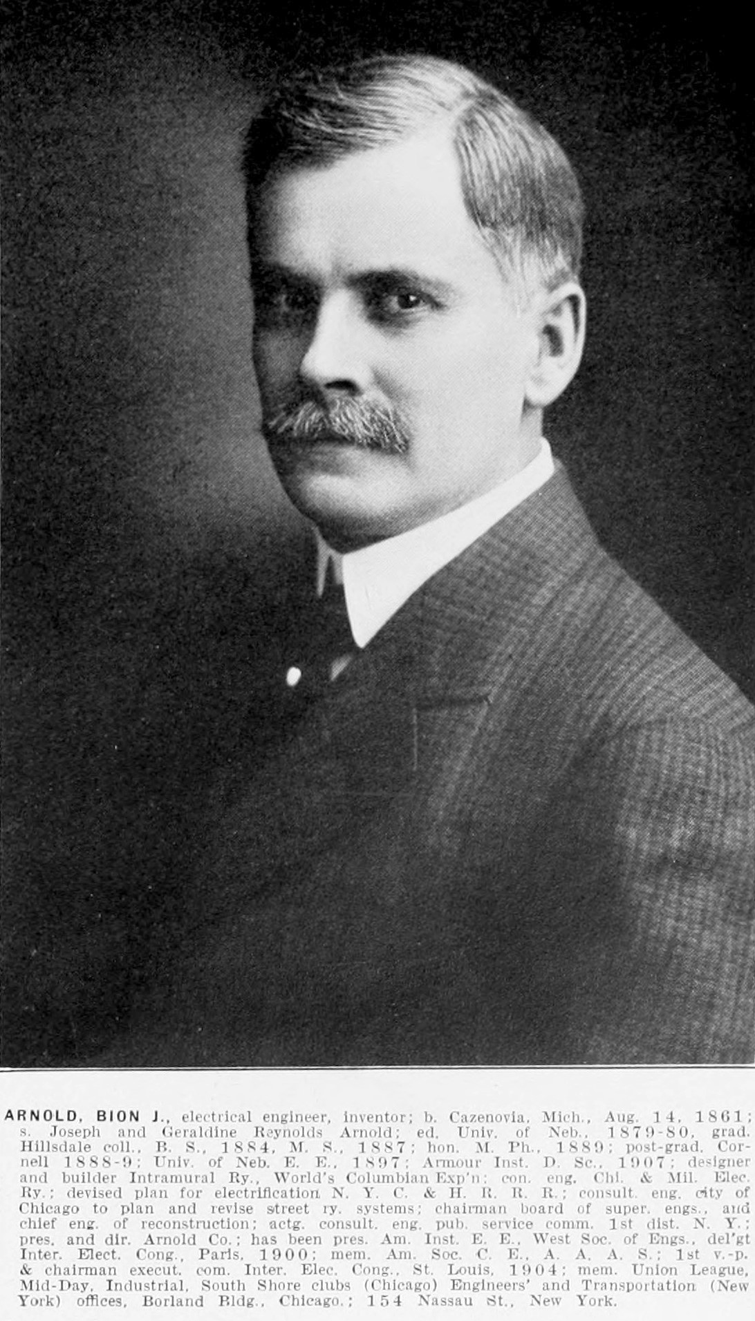 Portrait of Bion J Arnold